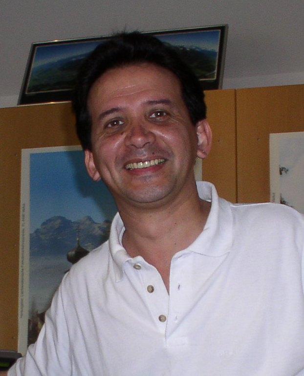 Atilio Orellana Rojas